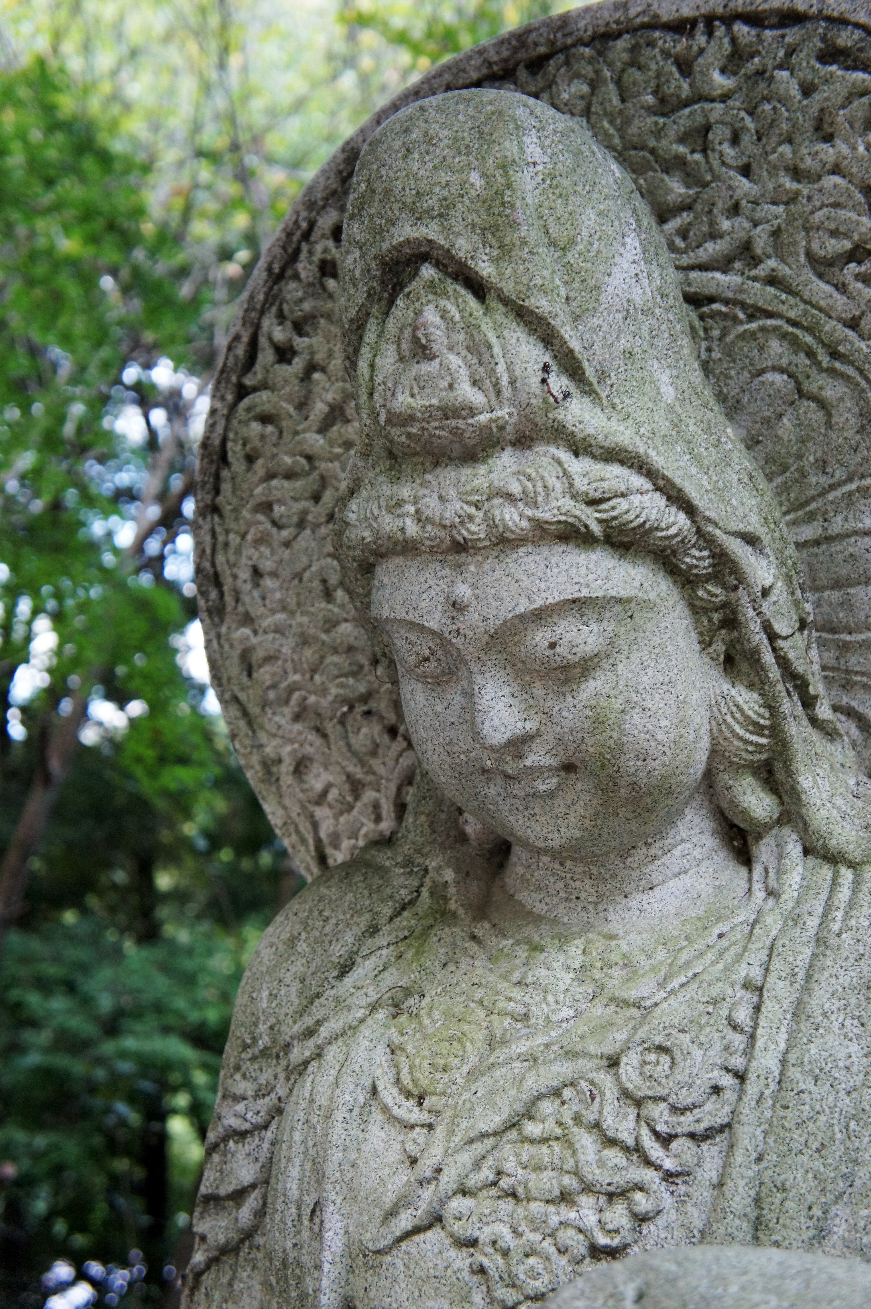 Mii-dera (Onjoji) in Otsu, Shiga prefecture, Japan.